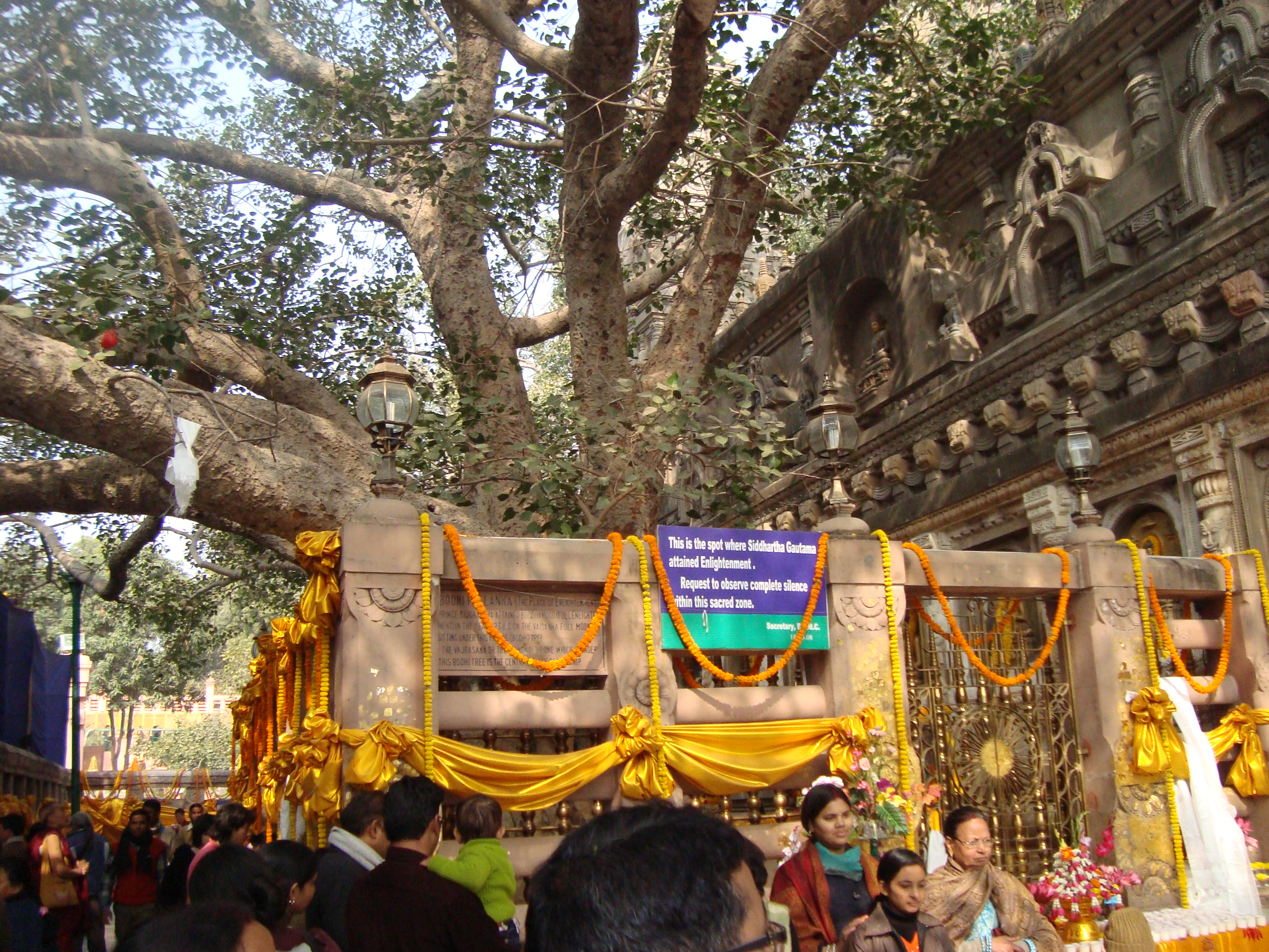 The Mahabodhi tree in which the Gautama Buddha reached his enlightenment.